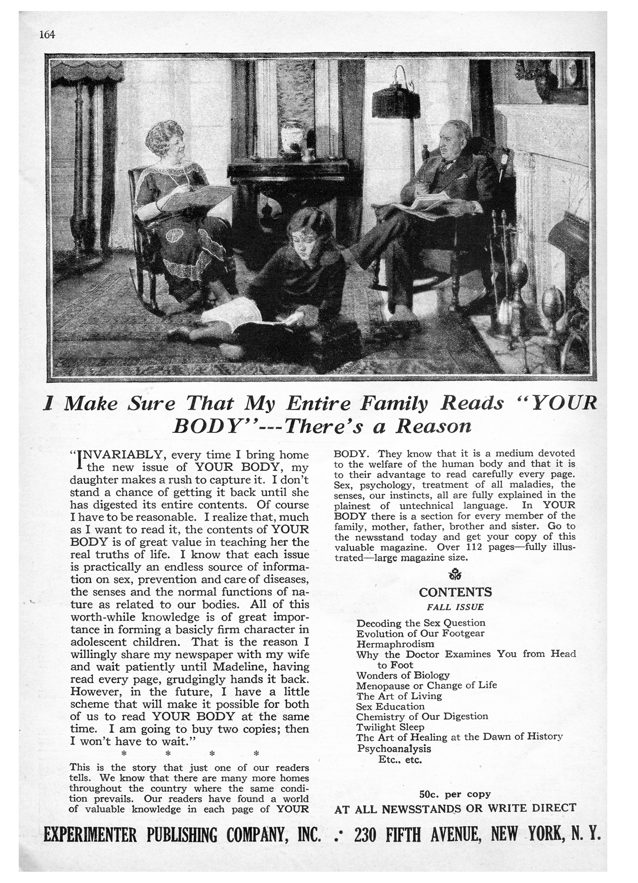 Radio Listeners' Guide and Call Book, November 1928. Volume 3 Number 2.